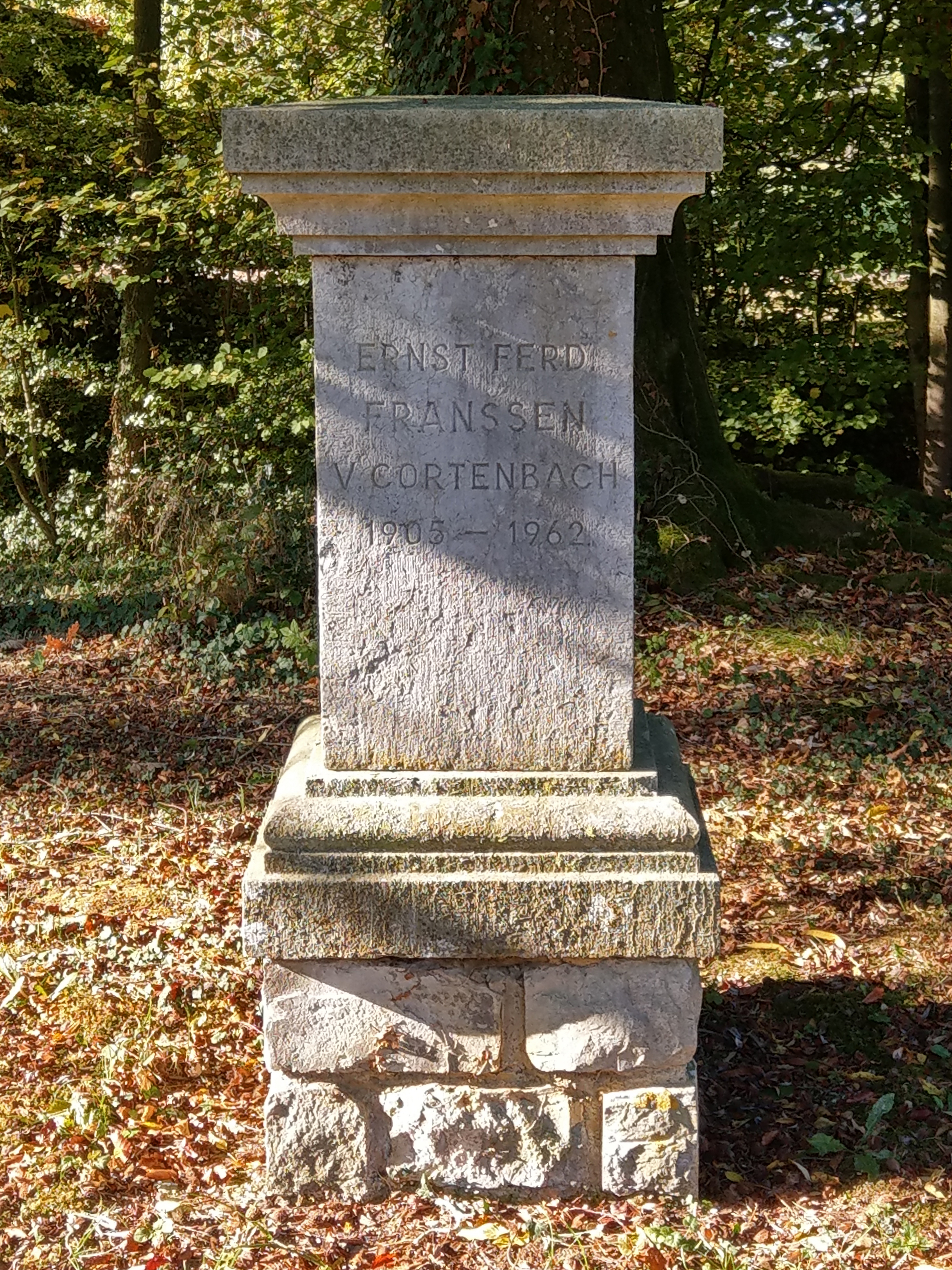 The domain is not publicly accessibleExplanations and history, see category